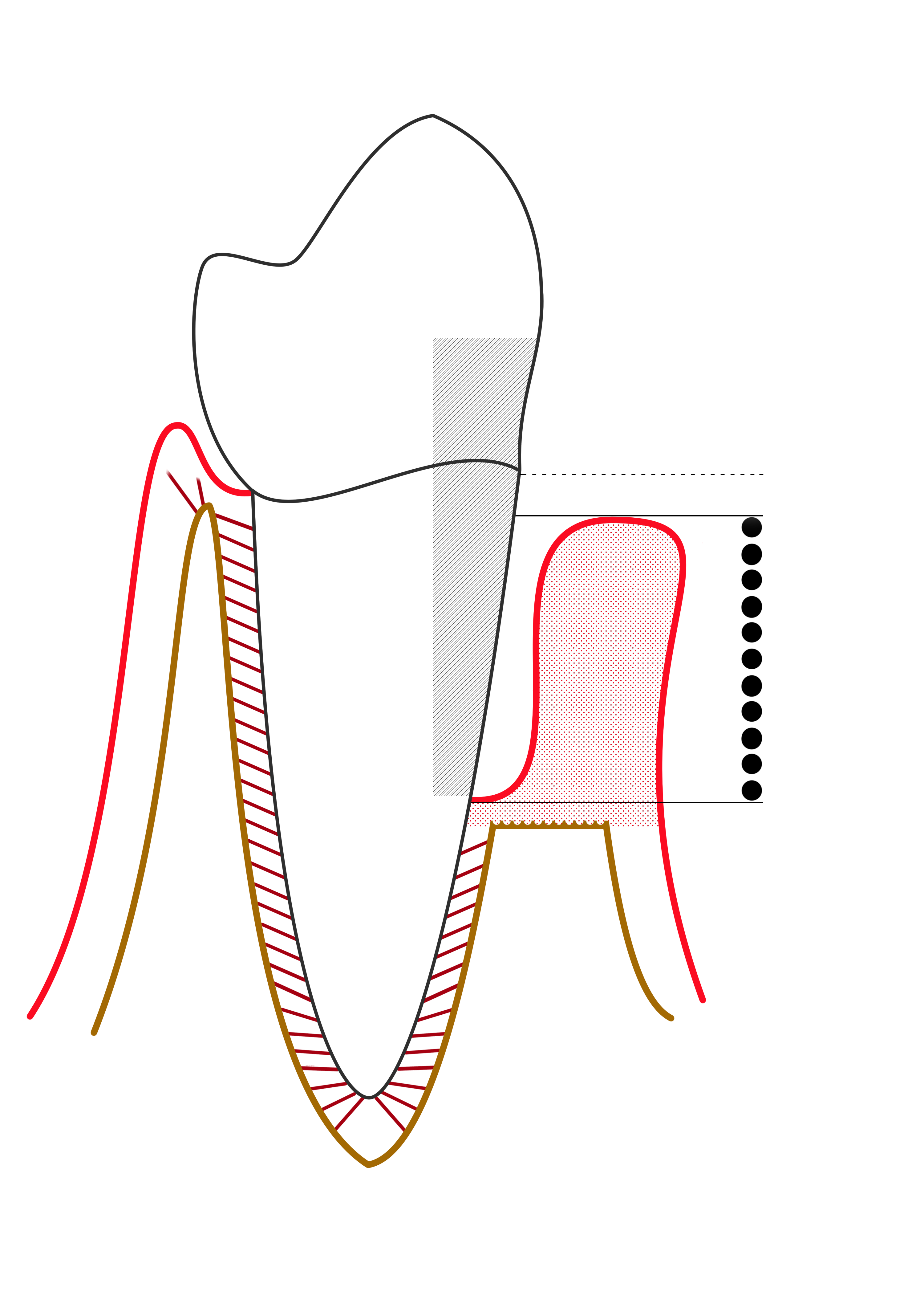 Line diagram of a tooth showing the gingiva, bone, periodontal ligament with a scale showing the pocket depth of severe periodontitis